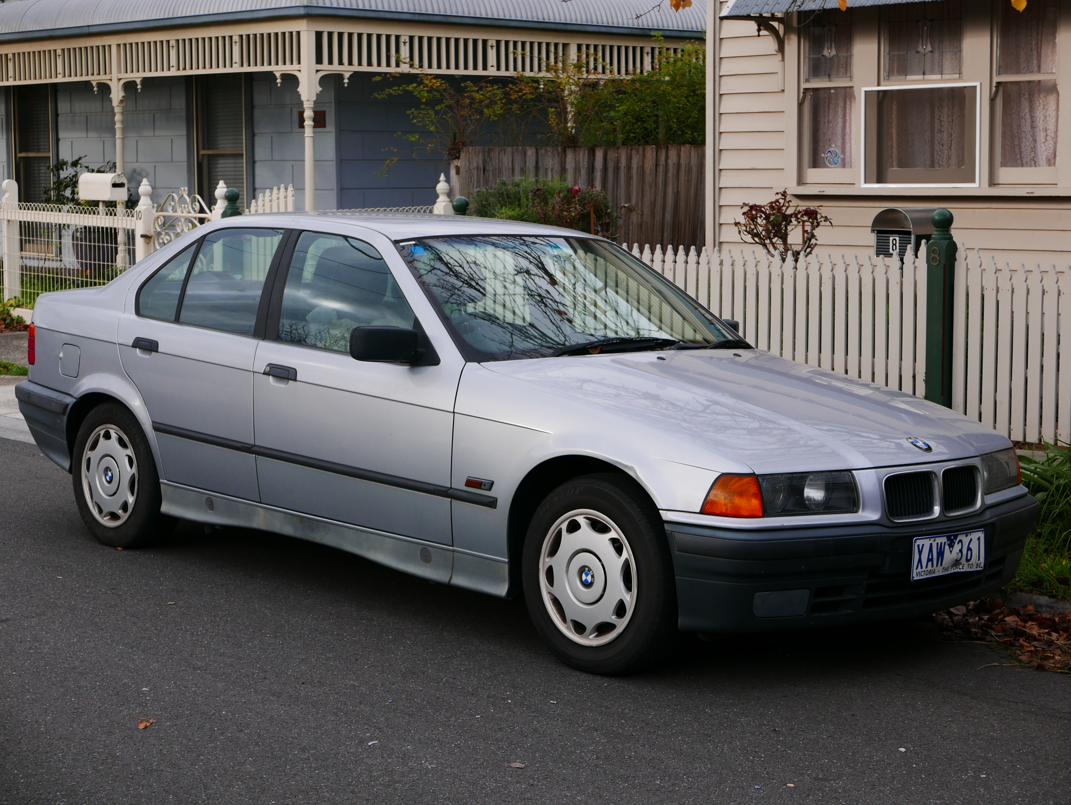 1994 BMW 318i (E36) sedan. Photographed in Northcote, Victoria, Australia. Vehicle registration enquiry results Jurisdiction Victoria Registration XAW361 Chassis code WBACA02050AD64920 Engine code 09048016 Compliance date 1994-01 Year of manufacture 1994